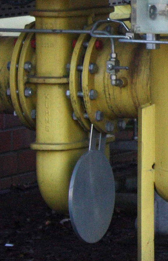 A spectacle blind flange in open position. Taken at a natural gas pipeline in Düsseldorf.